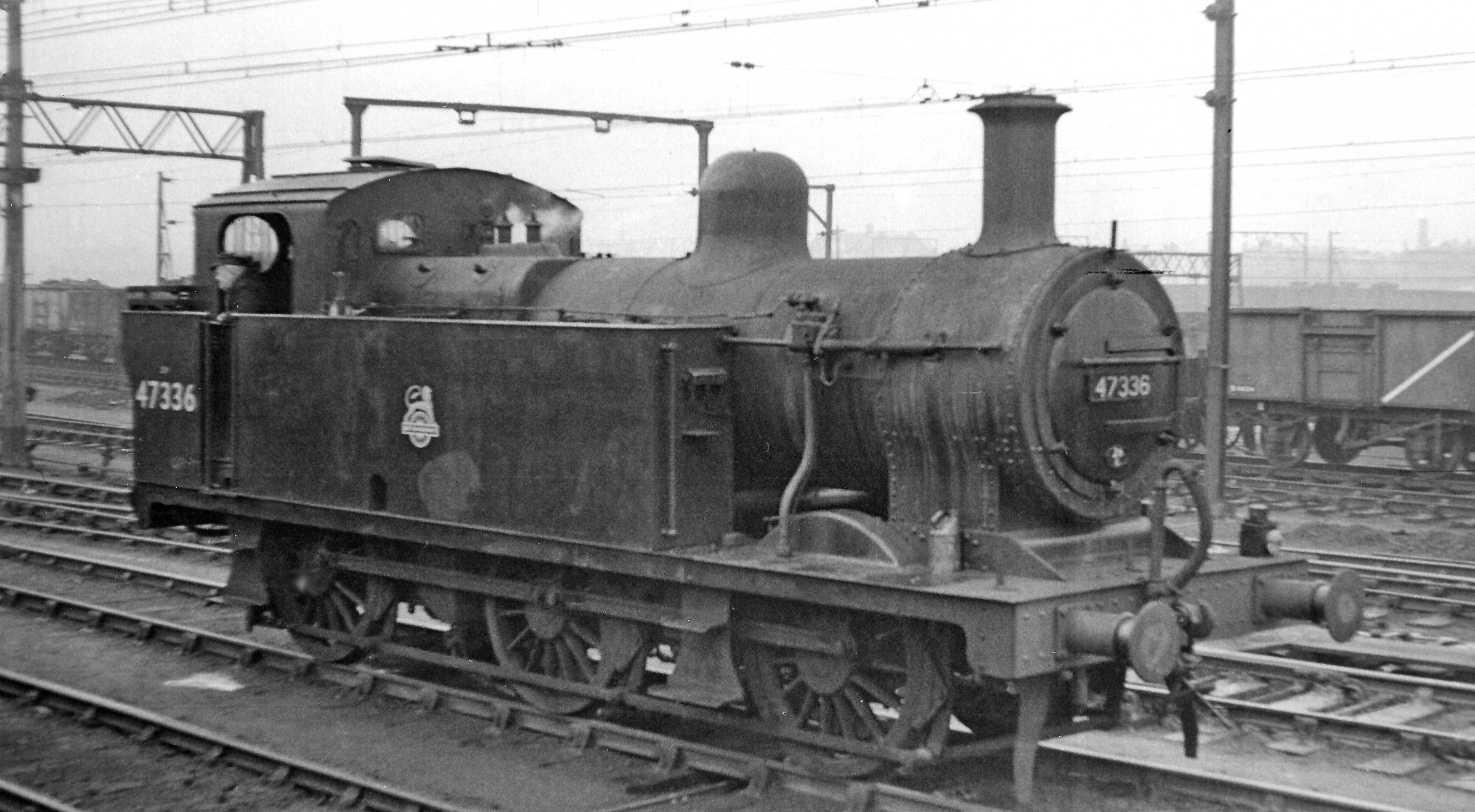 LMS Fowler 0-6-0T in Ancoats Sidings. View northward, taken from a Sheffield Victoria - Manchester London Road (electric-hauled) train, across the abundant sidings near Ashburys West Junction. The Sidings, electrified by 1954 along with the main line, handled traffic for Ardwick and Ancoats Goods Stations and the transfer of exchange traffic to/from the LMR Central Division. No. 47336 was built in 1926 as No. 16419 and withdrawn in 6/66.